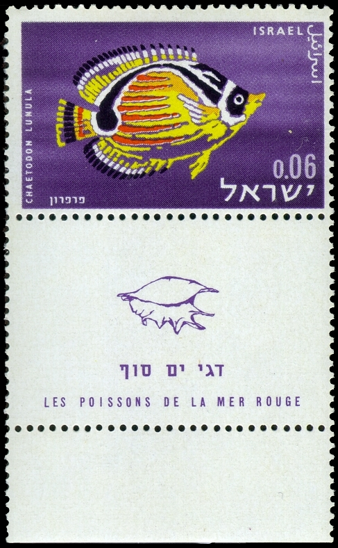 Red Sea Fish 1962 stamp - 0.06 Israeli lira - Chaetodon lunula (Raccoon butterflyfish).